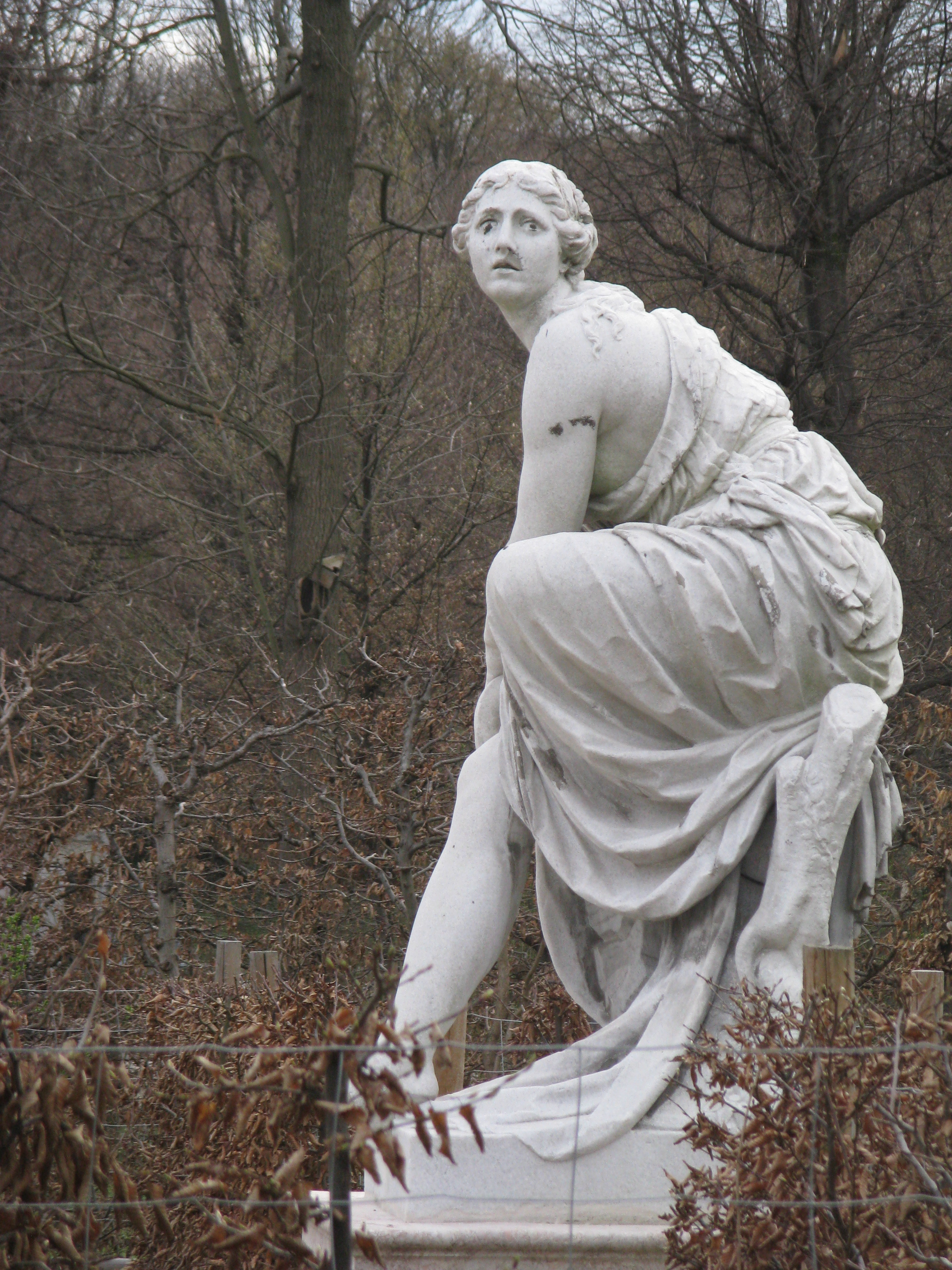 Statues in the Gardens of Schönbrunn - Eurydice.